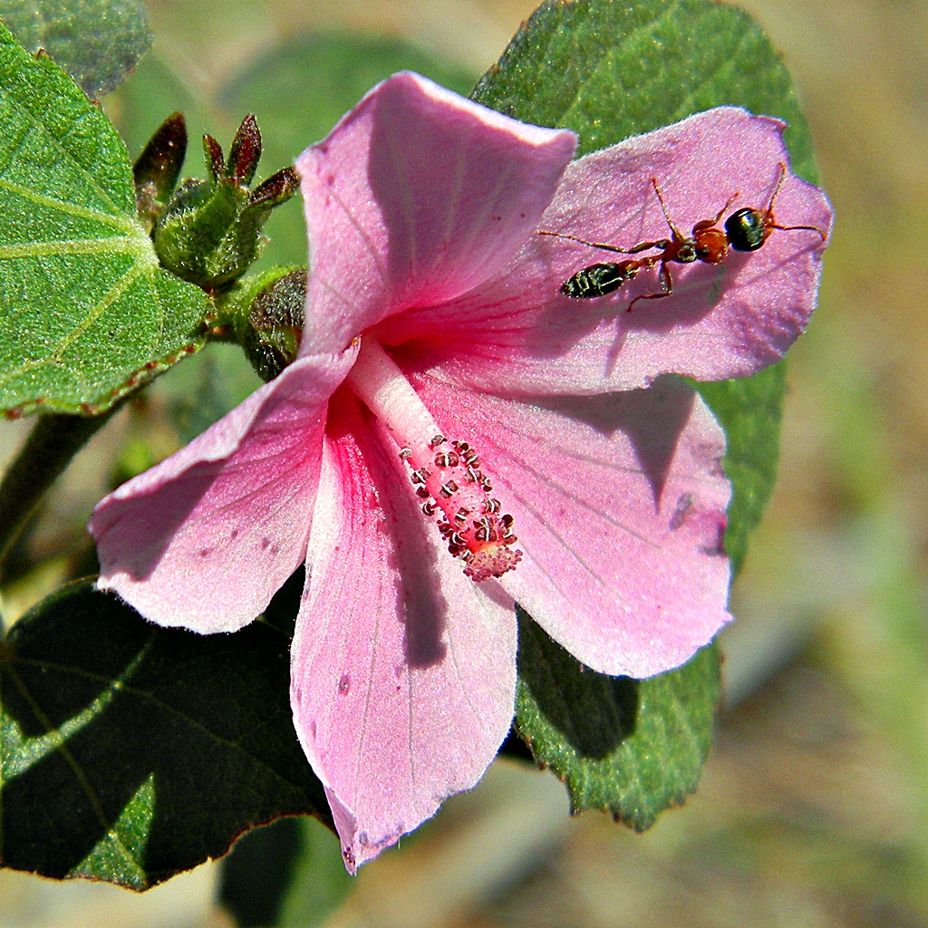 An Elongate Twig Ant (Pseudomyrmex gracilis) patrolling a Caesar weed (Urena labata) blossom. I have been stung by these ants many times (usually my fault). The Caesar Weed is an introduced member of the Hibiscus family that was once farmed in Florida for it's strong jute-like fibers but is now considered an invasive pest. It does have several medicinal uses. Sweetbay Natural Area.